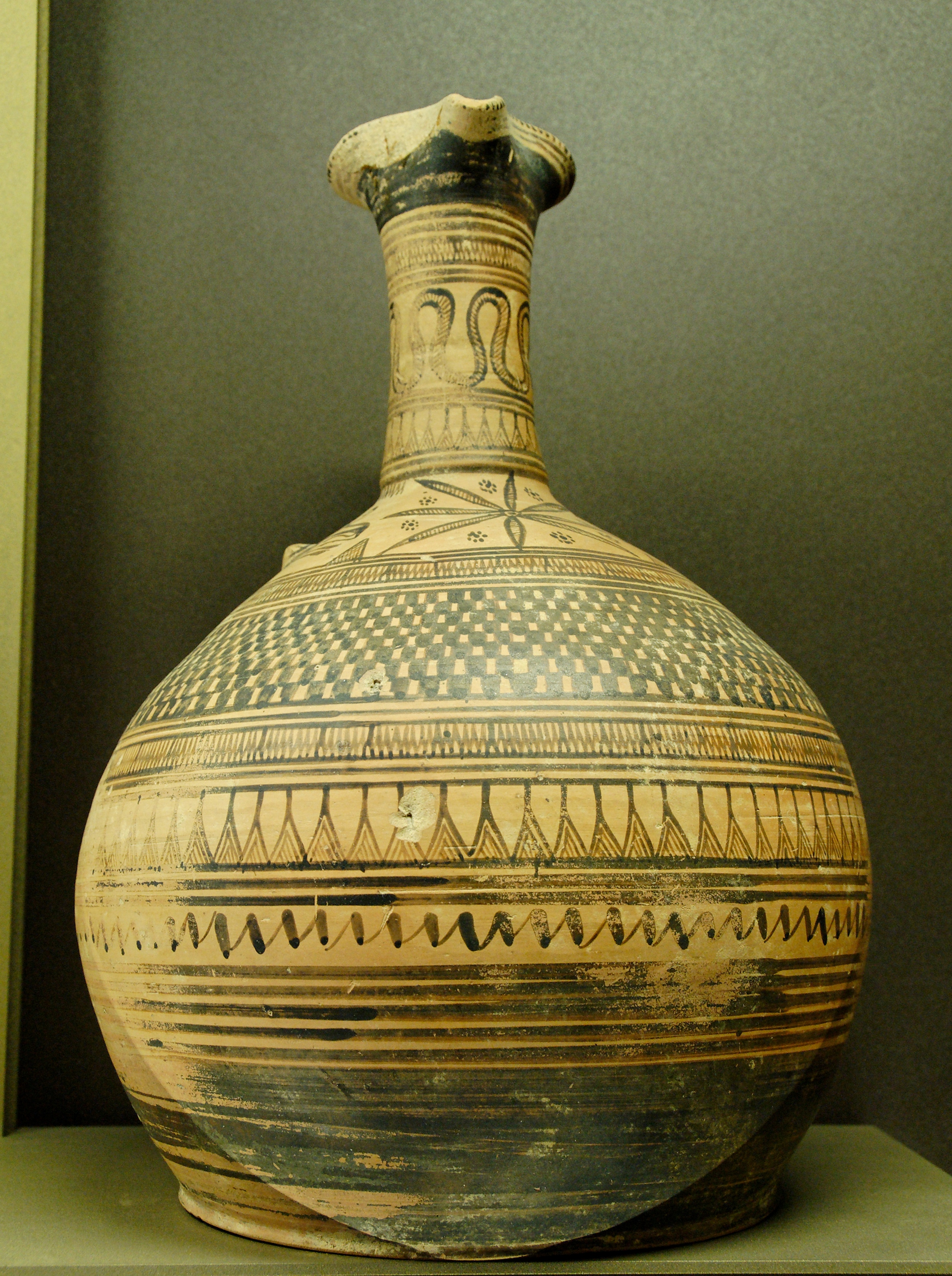 Attic Late Geometric oinochoe, ca. 750 BC. From Athens.